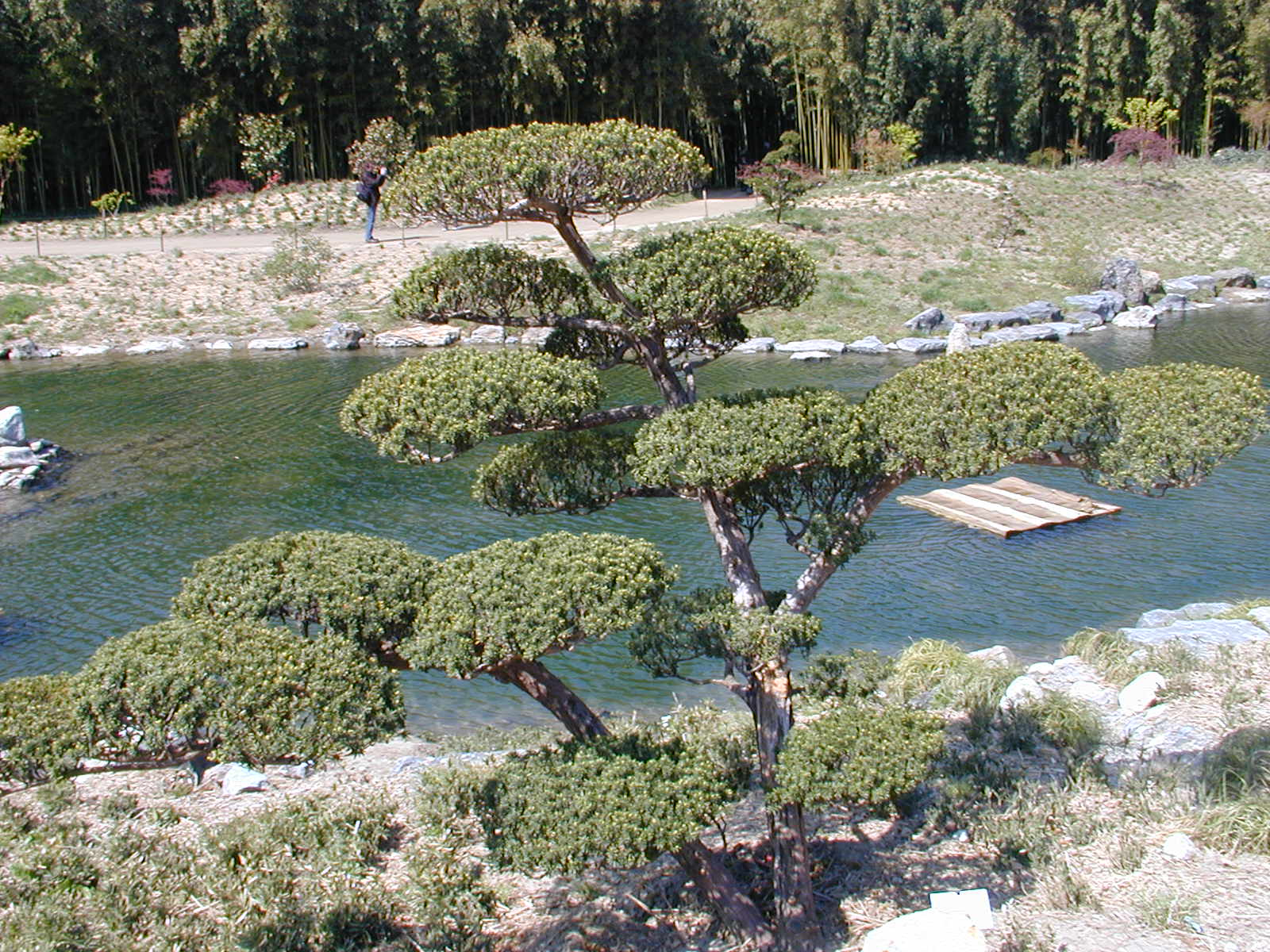 Japanese Yew (Taxus cuspidata) and the Amous river flowing right-to-left, near Générargues, Gard departement, France. The river is about 300 m away from its confluence with the Gard or Gardon river.